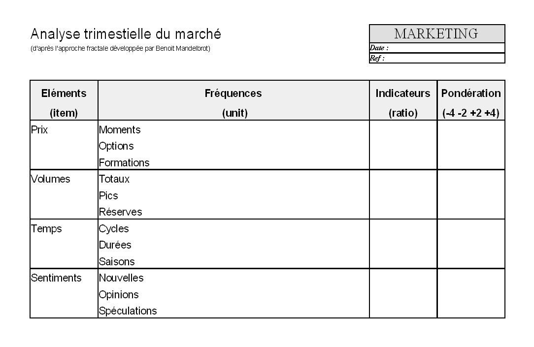 Quarterly ratios for a market